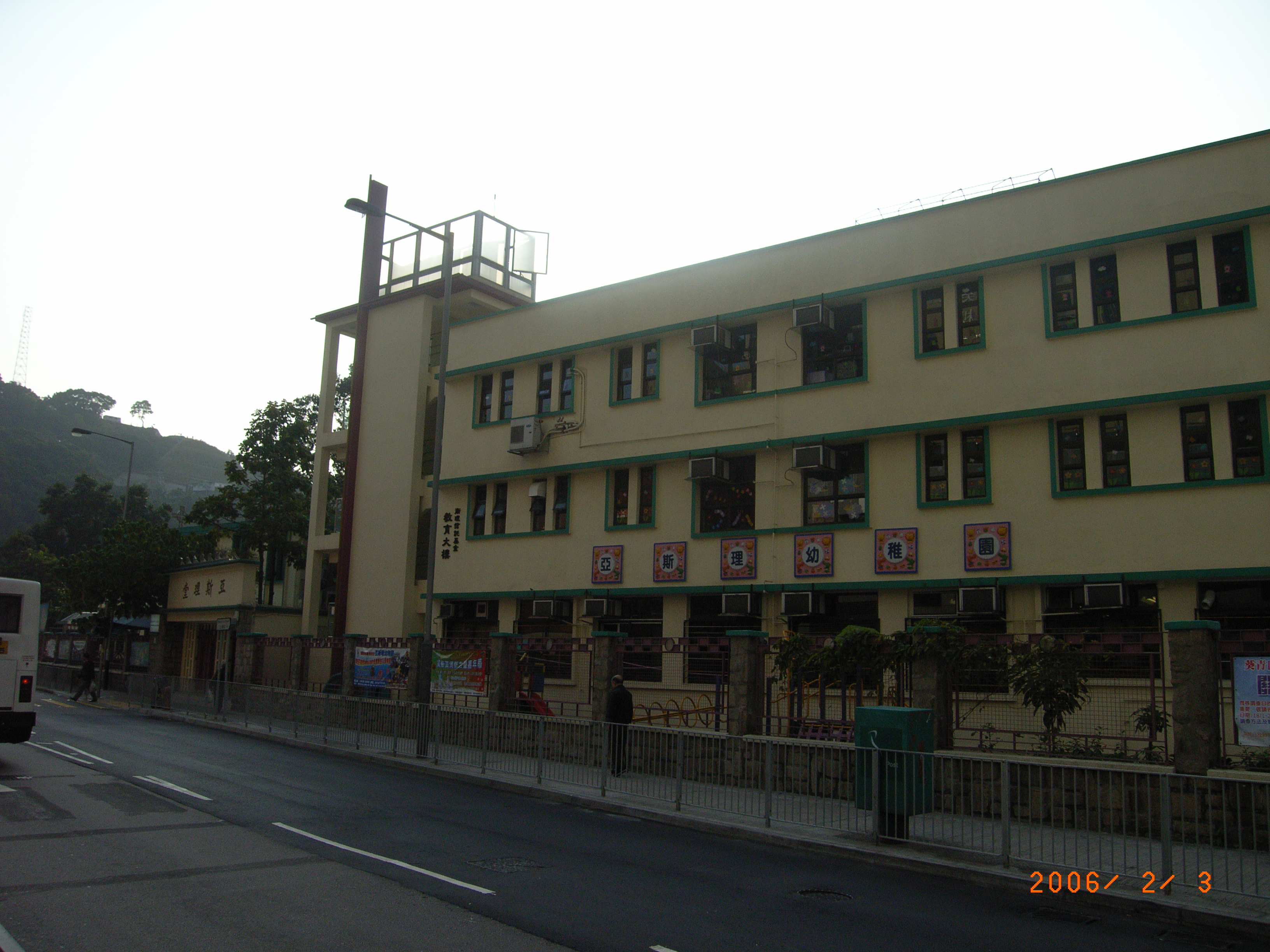 Asbury Methodist Church